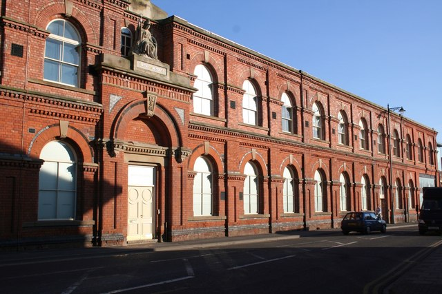 Britannia Works. The Britannia Ironworks was founded by the Marshall family in 1848 and built steam engines, tanks, munitions and agricultural machinery until closure in the 1980s. The site is now a successful retail park